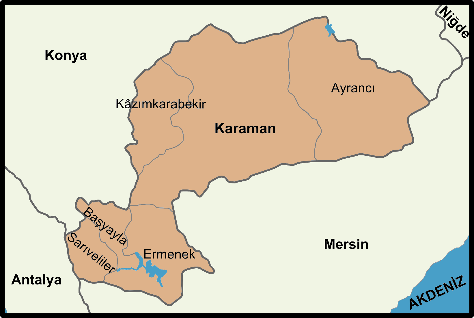 Map of the districts of Osmaniye Province, Turkey.